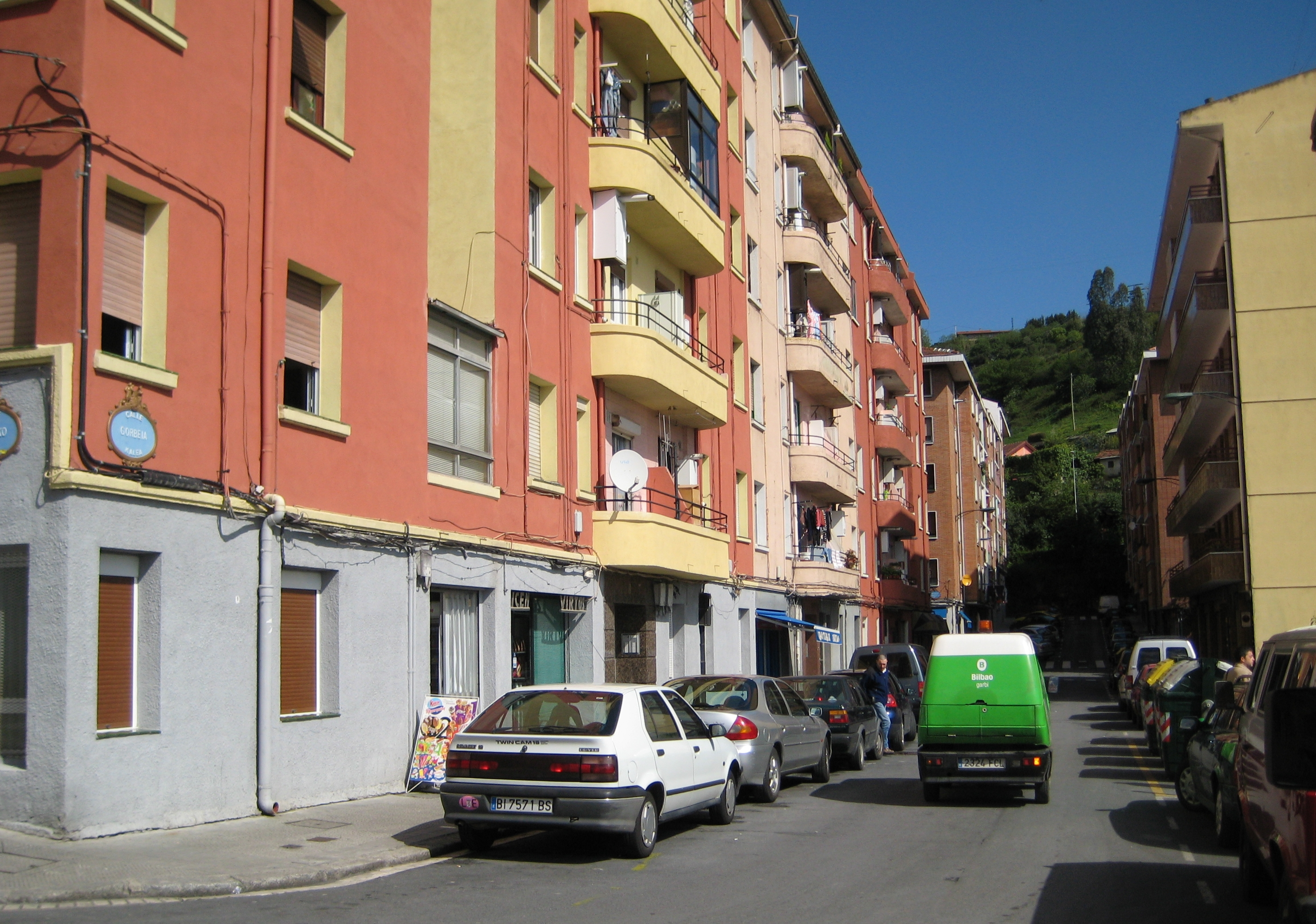 Street in Arangoiti, Bilbao.